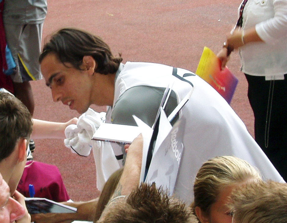 Yossi Benayoun signing autographs for fans at Upton Park during an open training session prior to the 2005/06 season.